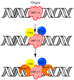 Pre-Replcative Complex Assembly in Yeast